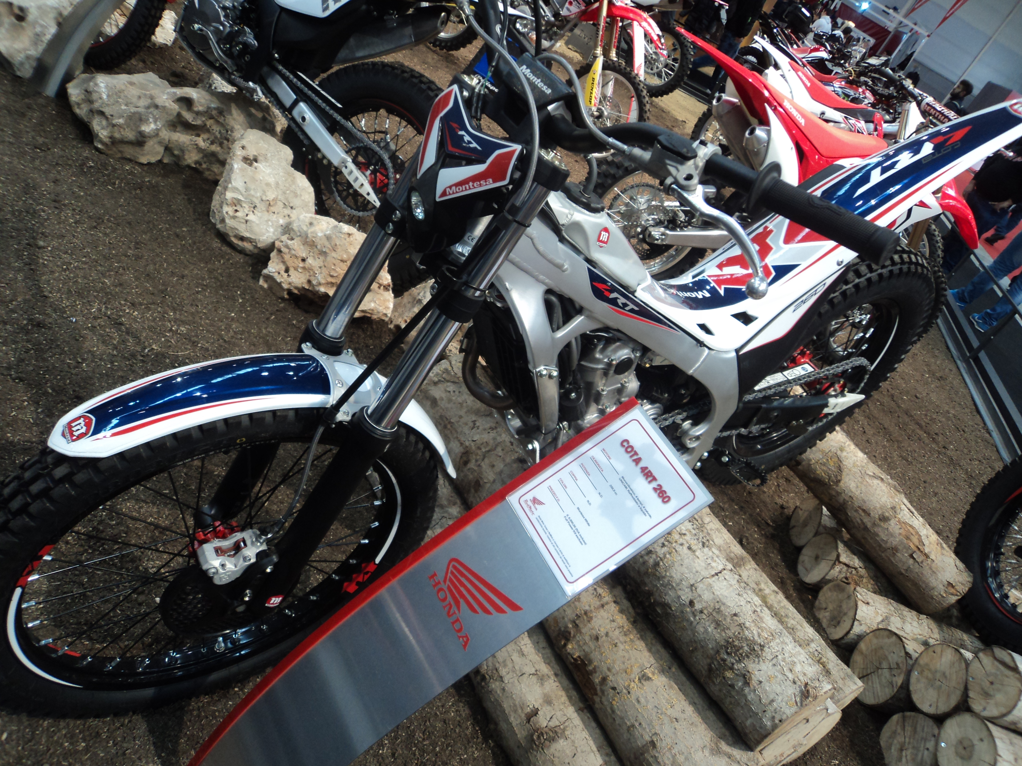 Montesa Cota 4RT@Motodays 2017